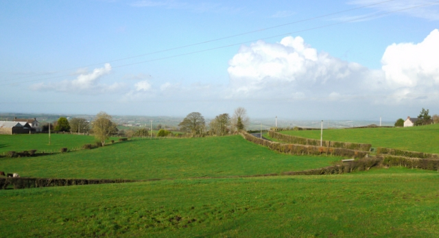 Fields near Glenanne Fields by the Ballylane Road near the village of Glenanne.